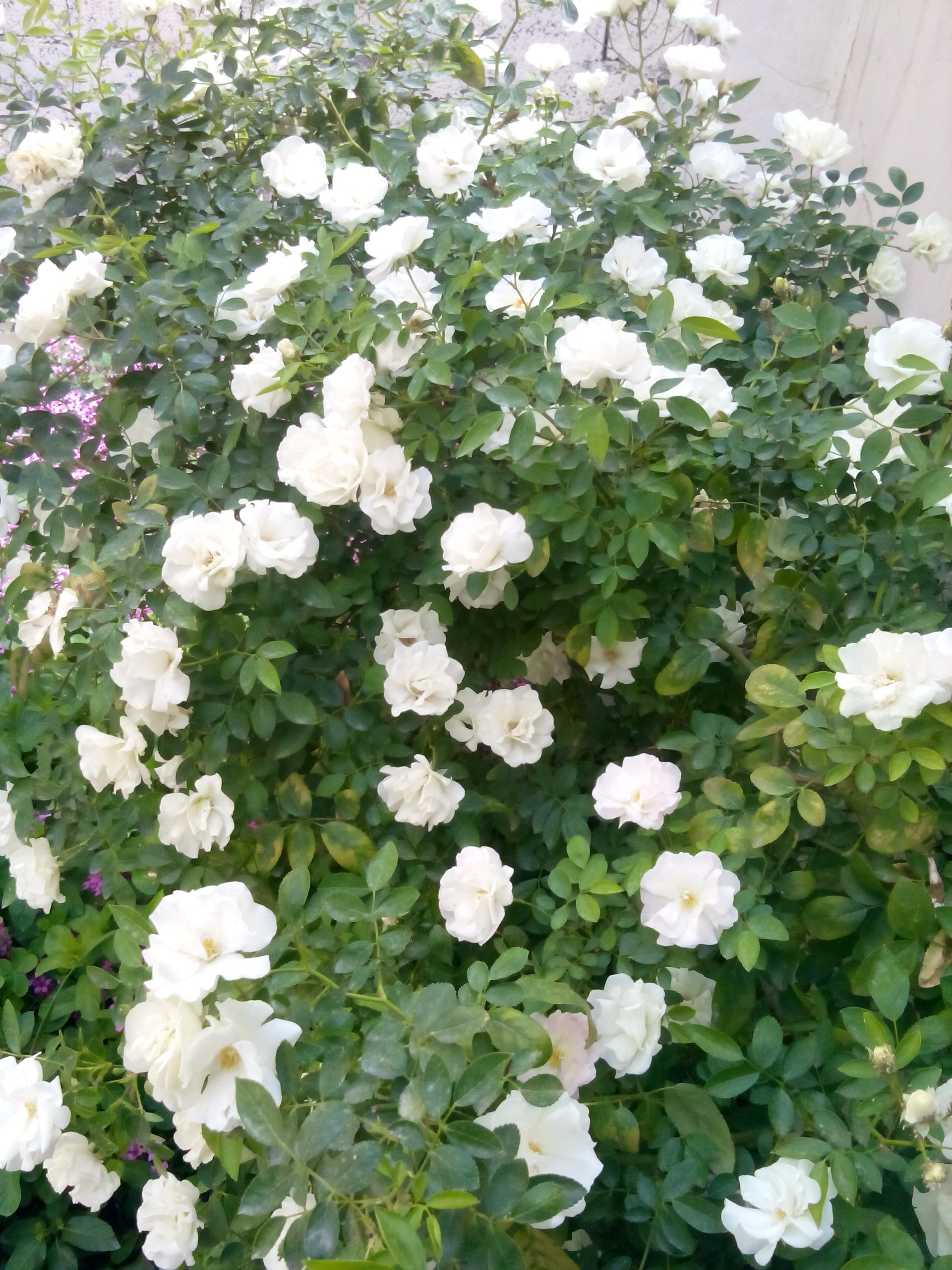 White flowers in the Garden in Baghdad